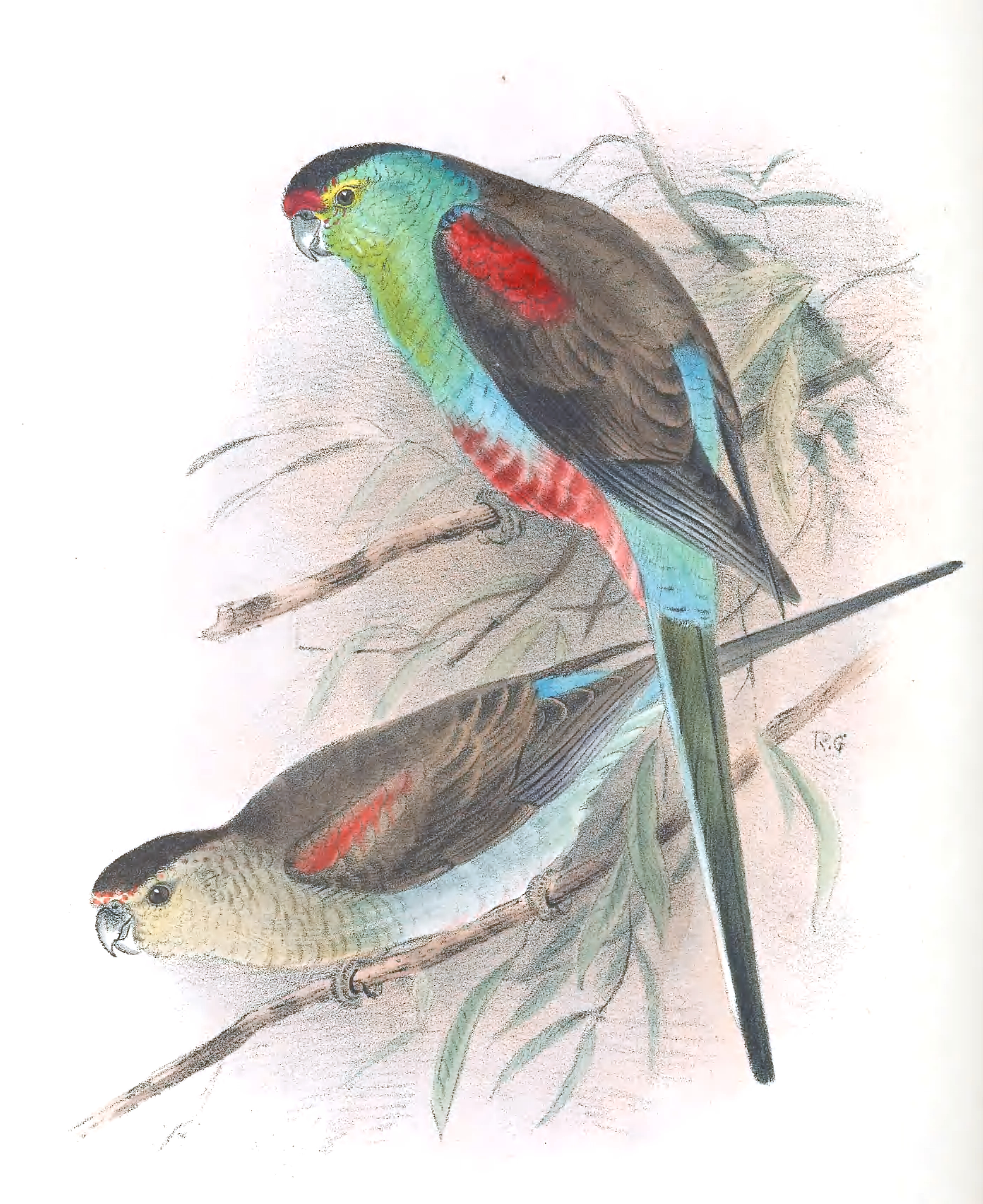 Image of the then extant but soon to be extinct parrot Psephotellus pulcherrimus